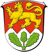 Coat of Arms of Obertshausen